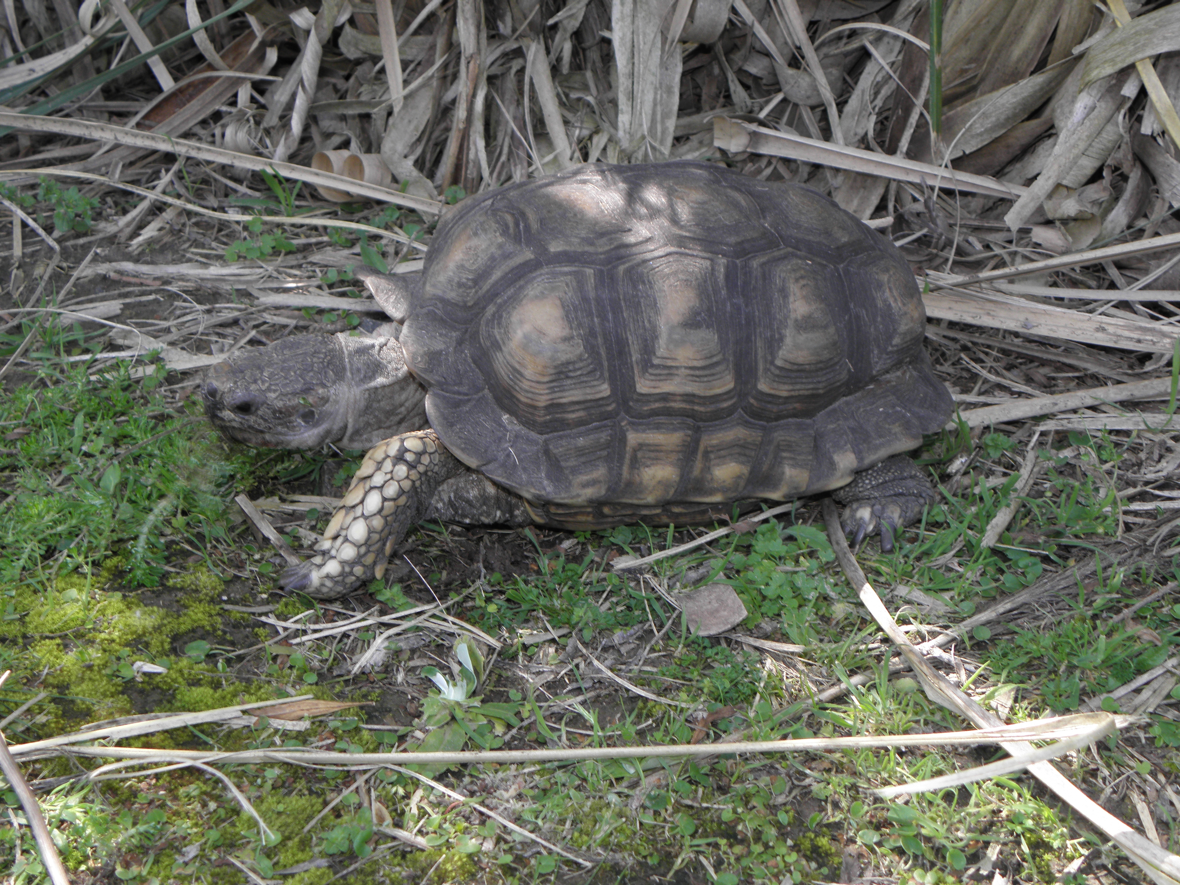 Argentine Tortoise (Chelonoidis chilensis).